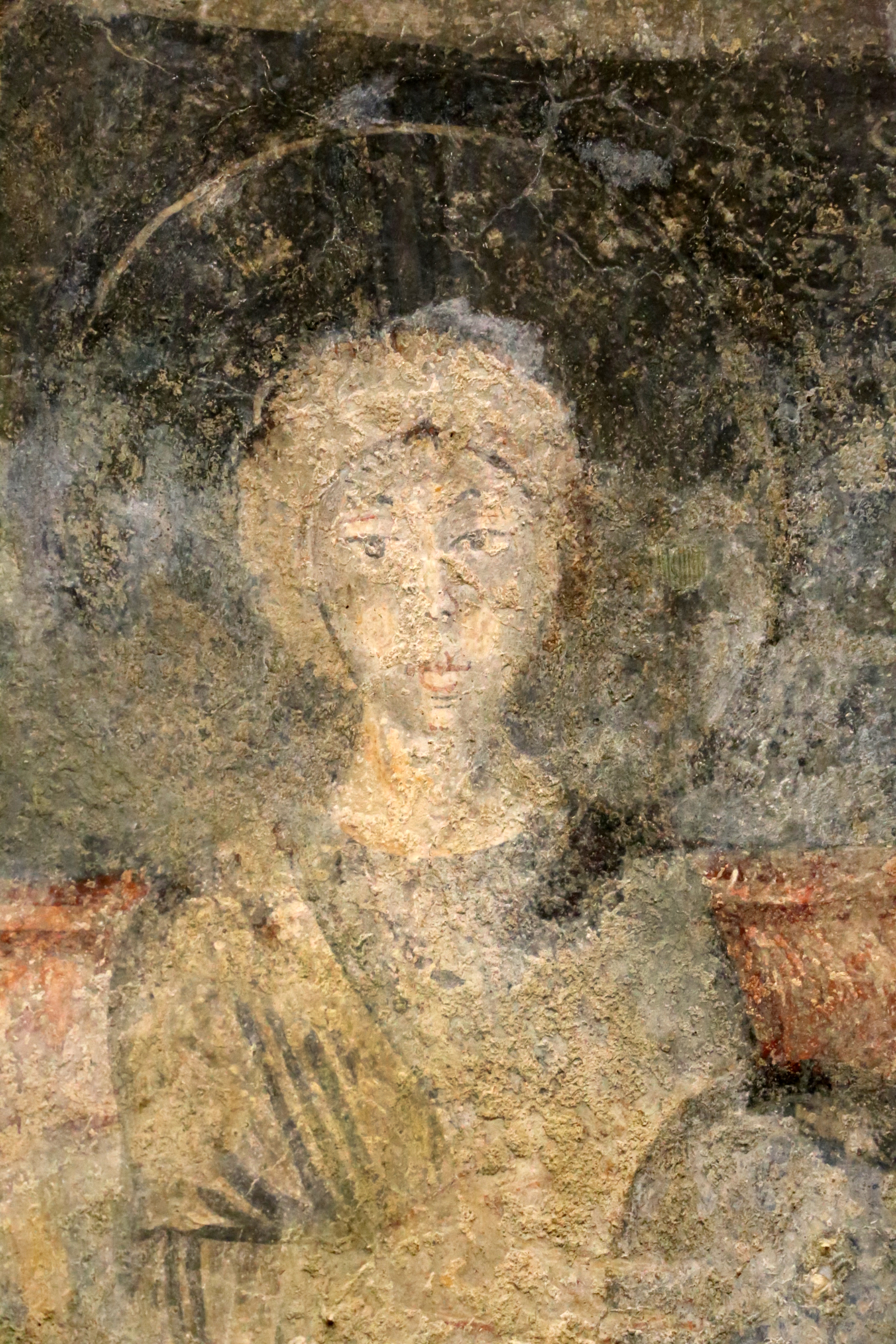 Detail of a fresco at Epifanio Crypt, which depicts the Archangel Gabriel.